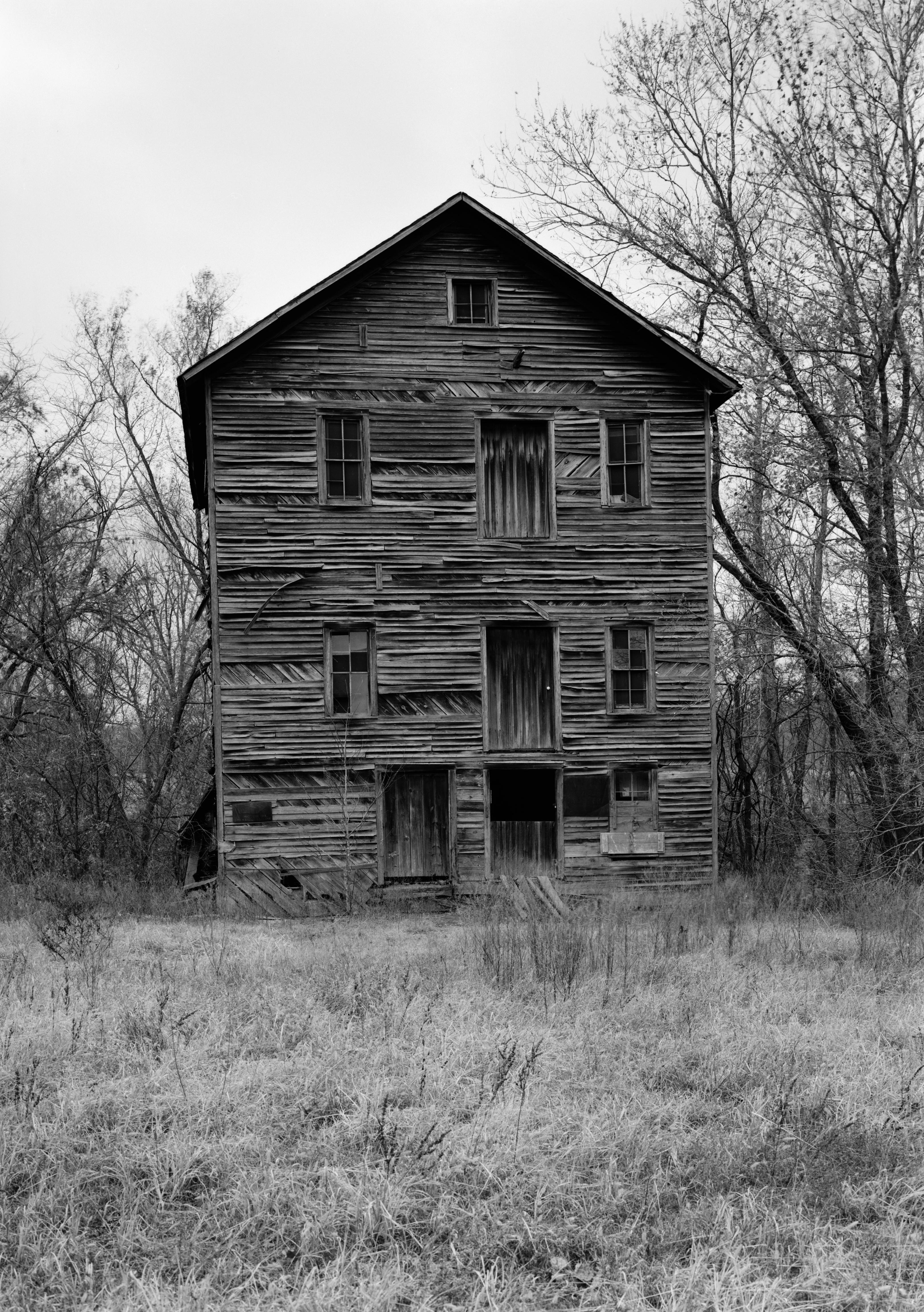 Front of the Hildebrand Mill, located northwest of West Siloam Springs in Delaware County, Oklahoma, United States. Built in 1907, it is listed on the National Register of Historic Places.